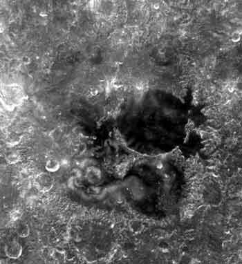 Mare Ingenii, on the far side of the moon. The dark circular feature is the crater Thomson, with the overflow from Ingenii/Thompson directly to the east. The light gray crater to the south of Mare Ingenii is the crater Obruchev. Although more difficult to make out on this photo, Van De Graaff is the crater located to the northeast of Mare Ingenii.